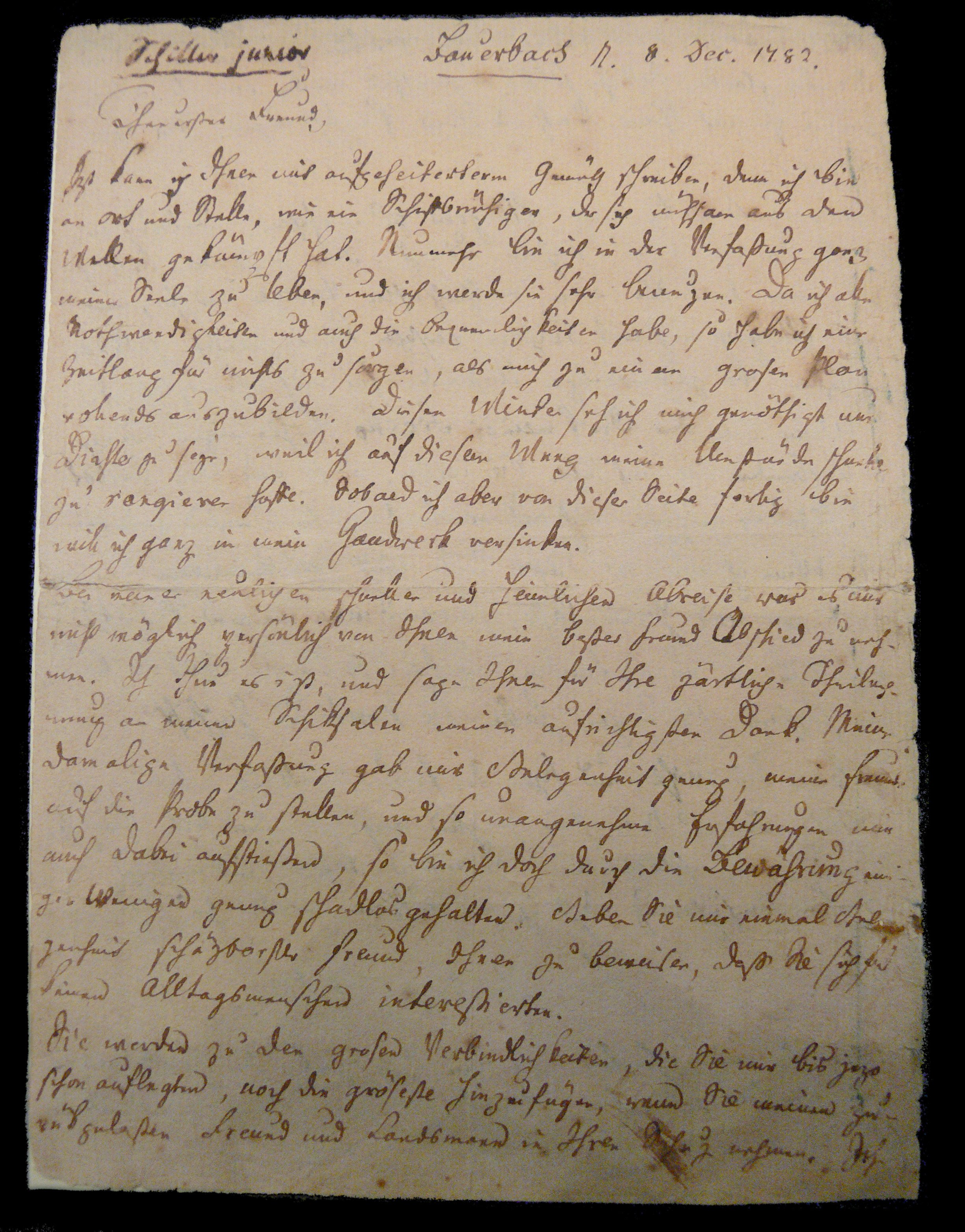 Brief Friedrich Schillers an Christian Friedrich Schwan, Bauerbach, 8. Dezember 1782 Collection: Reiss-Engelhorn-Museen, MannheimNote: This letter is written in a mix of German Kurrent and Roman script. Most obvious is the use of the Roman letter e.